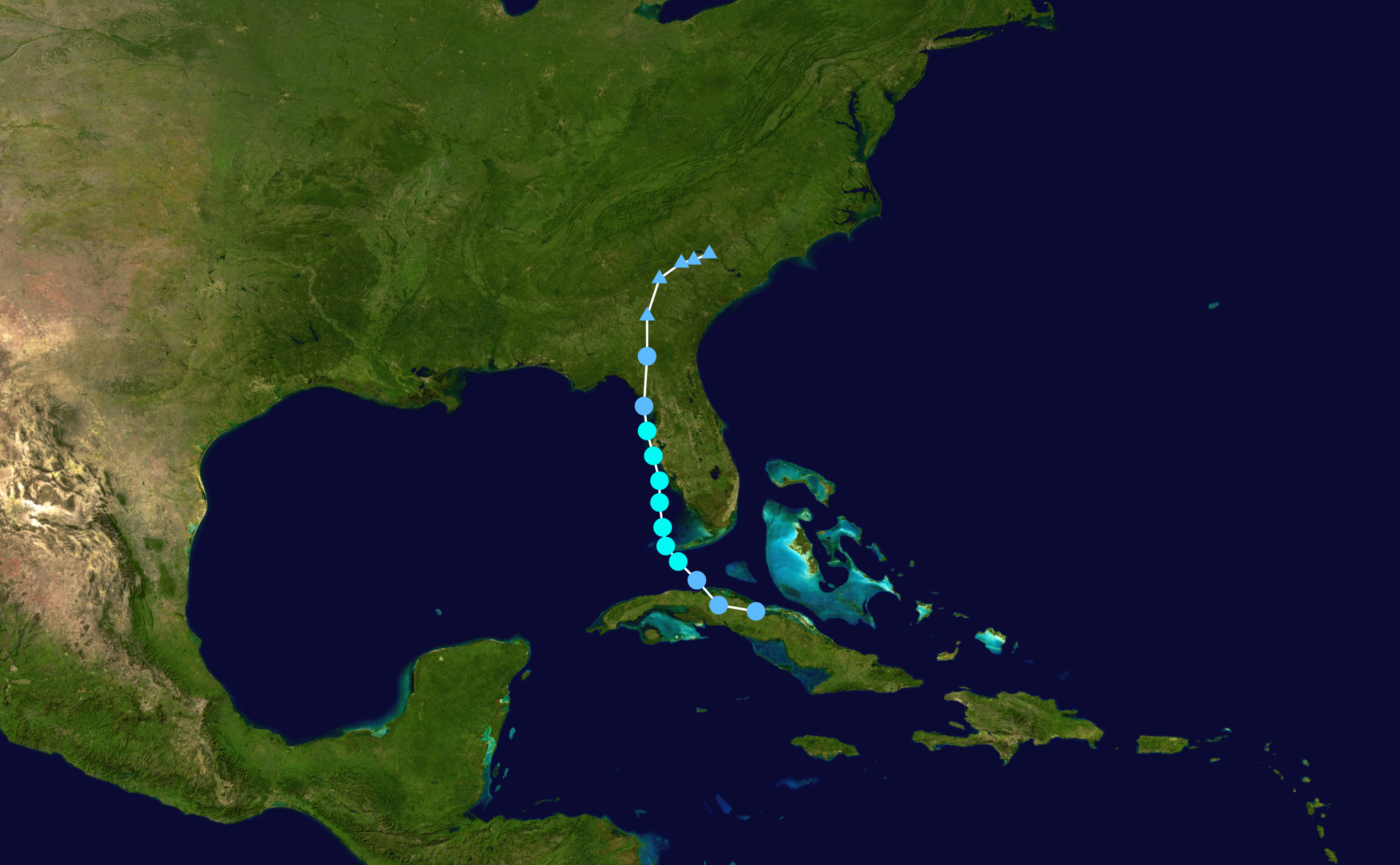 Track map of Tropical Storm Marco of the 1990 Atlantic hurricane season. The points show the location of the storm at 6-hour intervals. The colour represents the storm's maximum sustained wind speeds as classified in the Saffir–Simpson scale (see below), and the shape of the data points represent the nature of the storm, according to the legend below. Saffir–Simpson scale Tropical depression≤38 mph≤62 km/h Category 3111–129 mph178–208 km/h Tropical storm39–73 mph63–118 km/h Category 4130–156 mph209–251 km/h Category 174–95 mph119–153 km/h Category 5≥157 mph≥252 km/h Category 296–110 mph154–177 km/h Unknown Storm type Tropical cyclone Subtropical cyclone Extratropical cyclone / Remnant low / Tropical disturbance / Monsoon depression